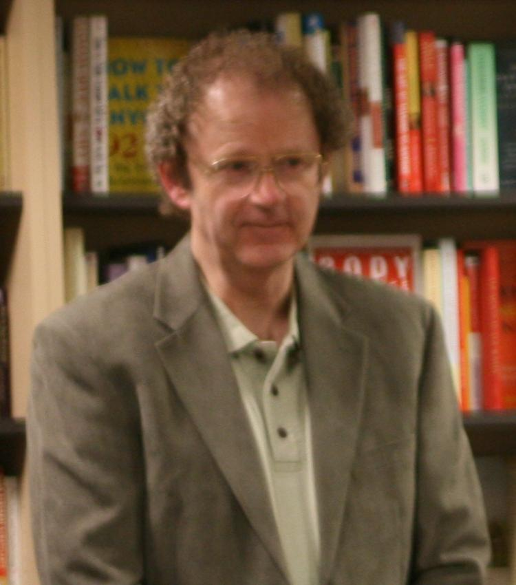 Brian Herbert at a book signing at Books Inc. in Mountain View